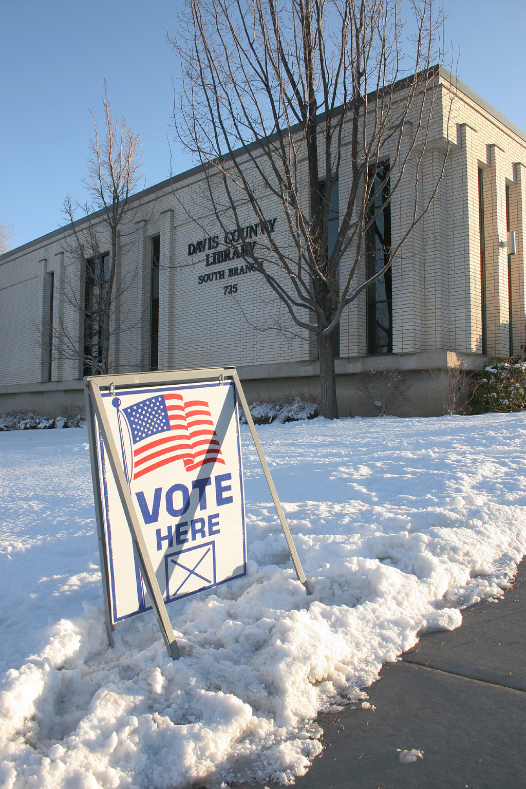 It looks like they want me to vote right there on the sign. Super Tuesday had a stunning morning here in Utah. The Davis County Library, South Branch is located in Bountiful, Utah